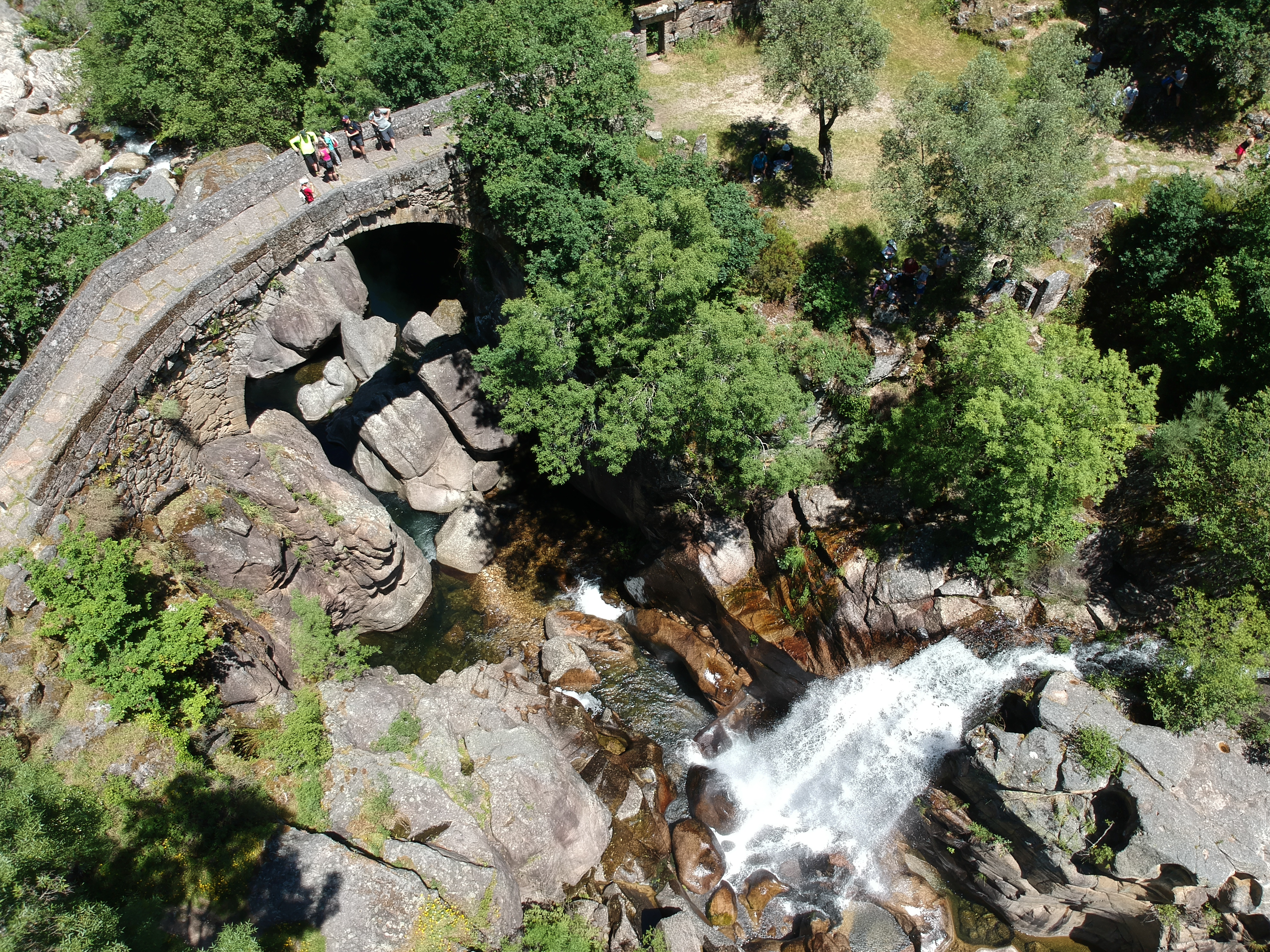 Ponte de Mizarela, Rabagão River, Portugal.